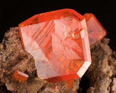 Wulfenite Locality: Red Cloud Mine, Silver District, Trigo Mts, La Paz County, Arizona, USA (Locality at ) Size: 6.0 x 4.5 x 3.5 cm. A 1.2 cm, gemmy and lustrous, reddish-orange wulfenite crystal is perched on vuggy, drusy quartz matrix on this fine specimen from the last "hurrah" of the Red Cloud Mine. The wulfenites have classic, sharp beveled edges. The smaller wulfenites are a nice accent to this fine piece.